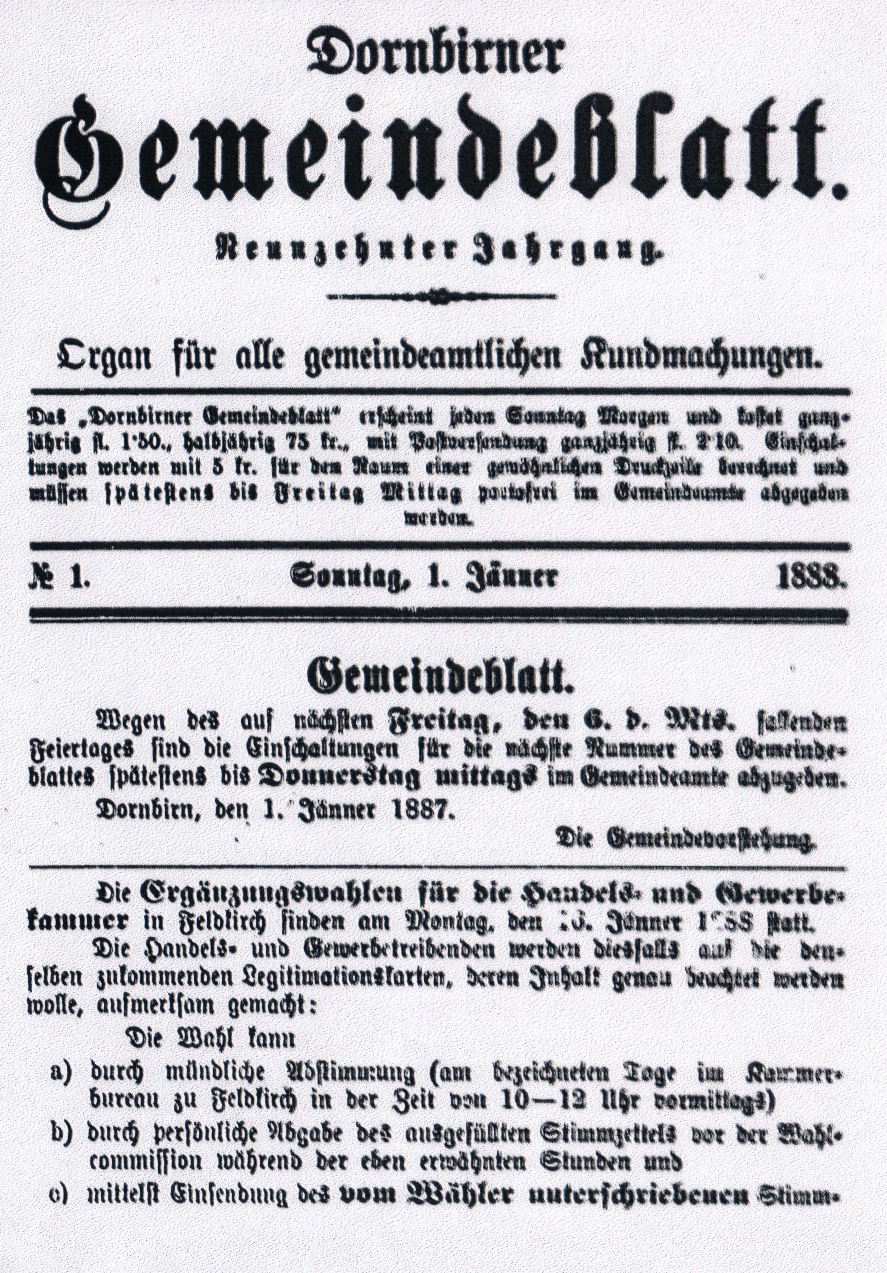 January 1, 1888 issue of the Dornbirner Gemeindeblatt (parish newsletter).